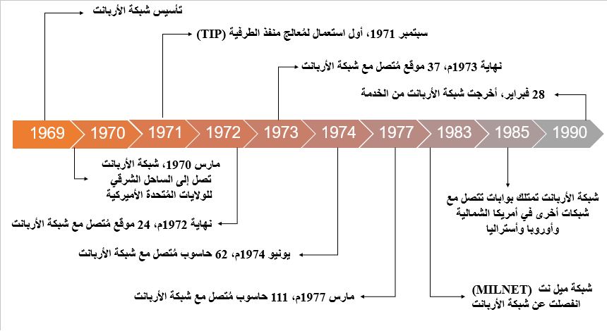 The ARPANET Timeline (1969-1990).